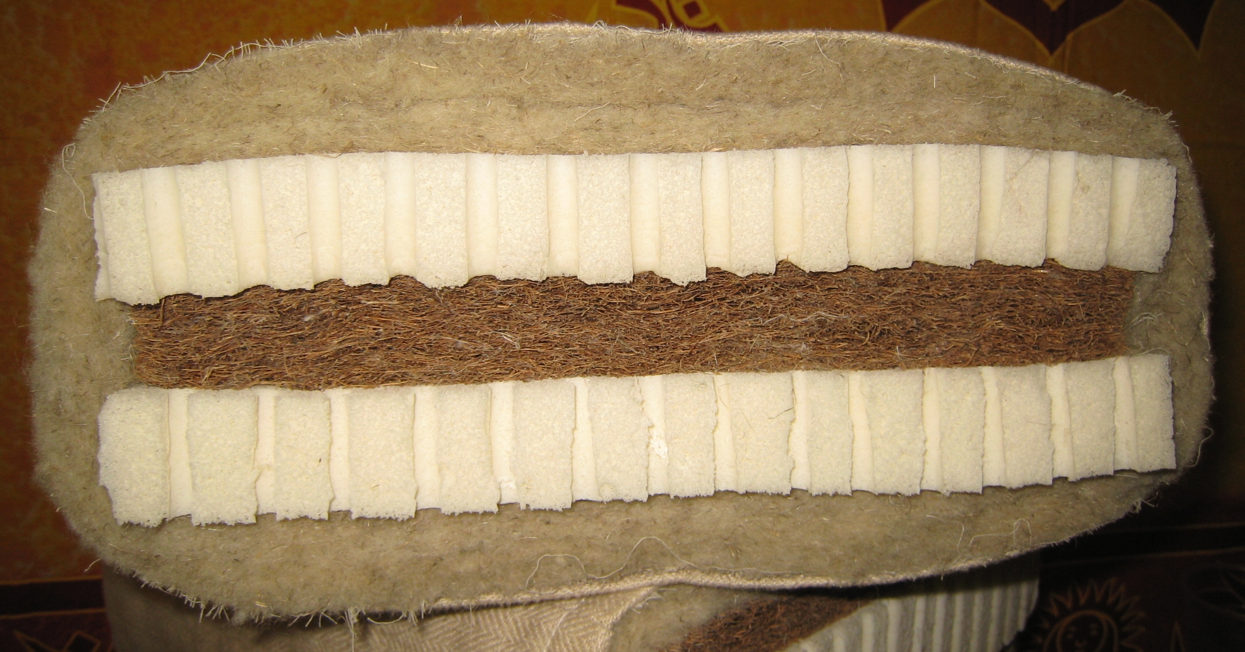 The cross-section of a mattress made of coconut fibres(middle; brown line), a spcial foam (above and below the coconut fibres; withe lines) and a mixture of hemp- and sheepwool (above and below the foam; grey-brown ring)